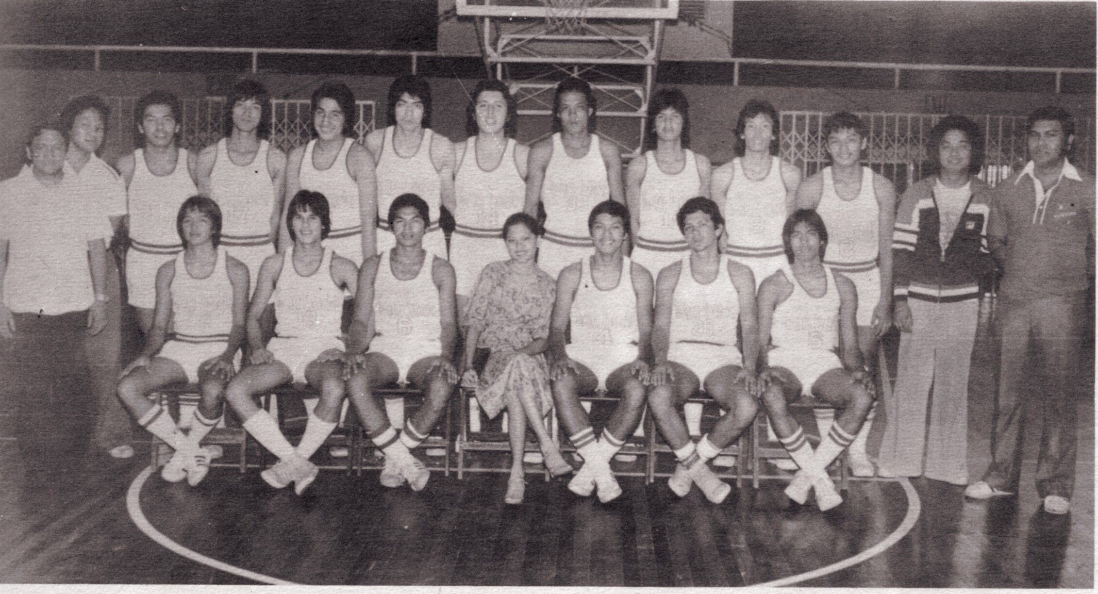 1st Row: Ramon Martin, Francisco Lim, Louis Brill, Muse Bing Pimentel, Jose Emmanuel Guzman – Team Captain, Manuel Manosa III, Ricardo Dabu. 2nd Row: Fr. Paul de Vera, OSB, Athletic Moderator P. Cayco, Asst. Manager Raymundo Barreiro, Bernardo Martin, Albert Bregendahl, Jose Yango, Joaquin Loyzaga, Rolando Evangelista, Elmer Reyes, Gabriel Lim, Noel Guzman, Manager Nereo Andolong, Jr., Coach Loreto Carbonell.